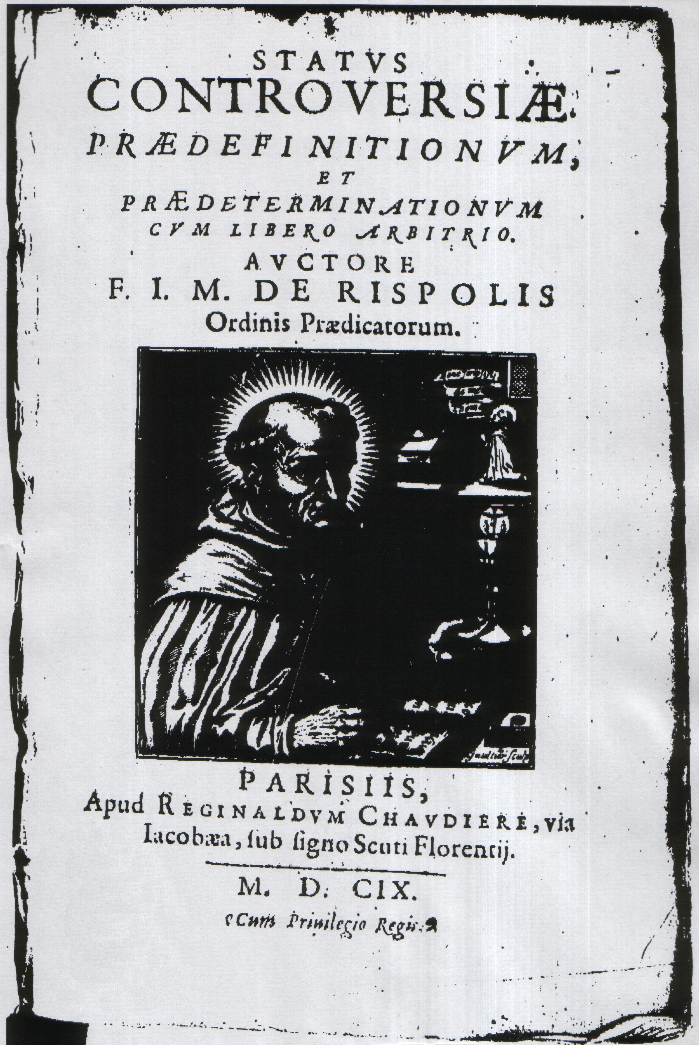 John Matthew Rispoli's 1609 opus magnus